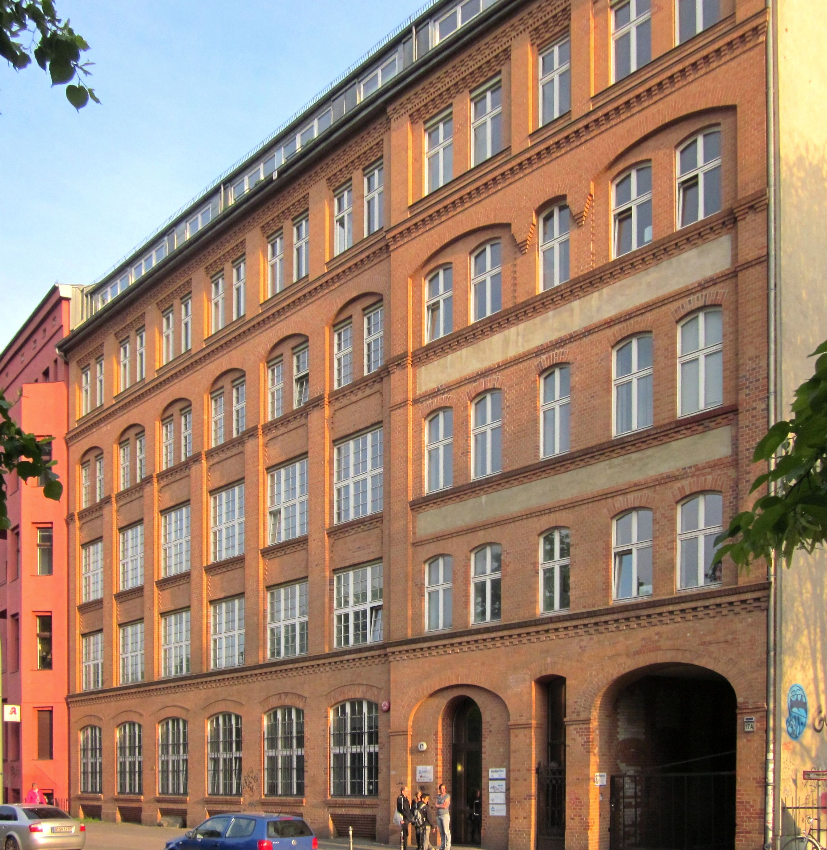 Former factory at Tempelhofer Ufer No. 17 in Berlin-Kreuzberg. The buildings, which are grouped around two courtyards, were built in 1898 by A. Winkler for the Norddeutsche Gummi- und Guttapercha-Waren-Fabrik (rubber products). The complex has been designated as a cultural heritage monument.